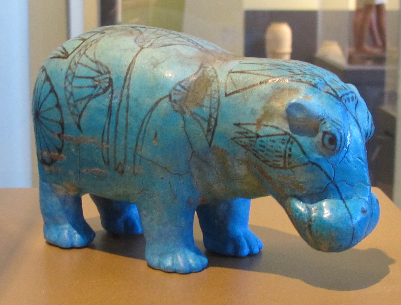 Egyptian antiquities in the Brooklyn Museum